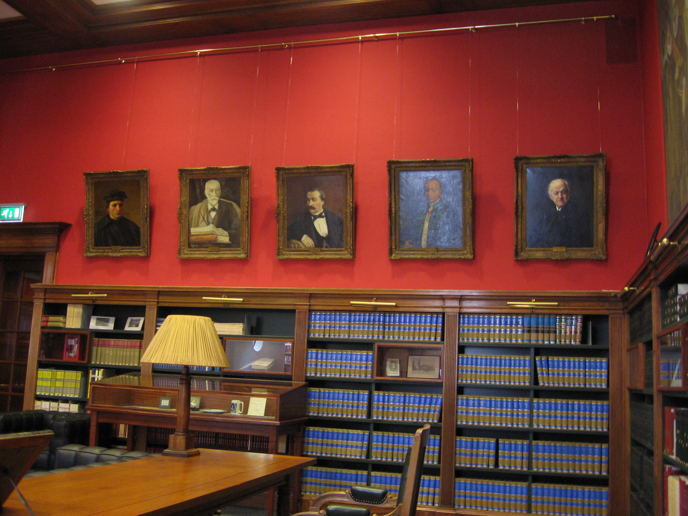 Peace Palace Library, 2014